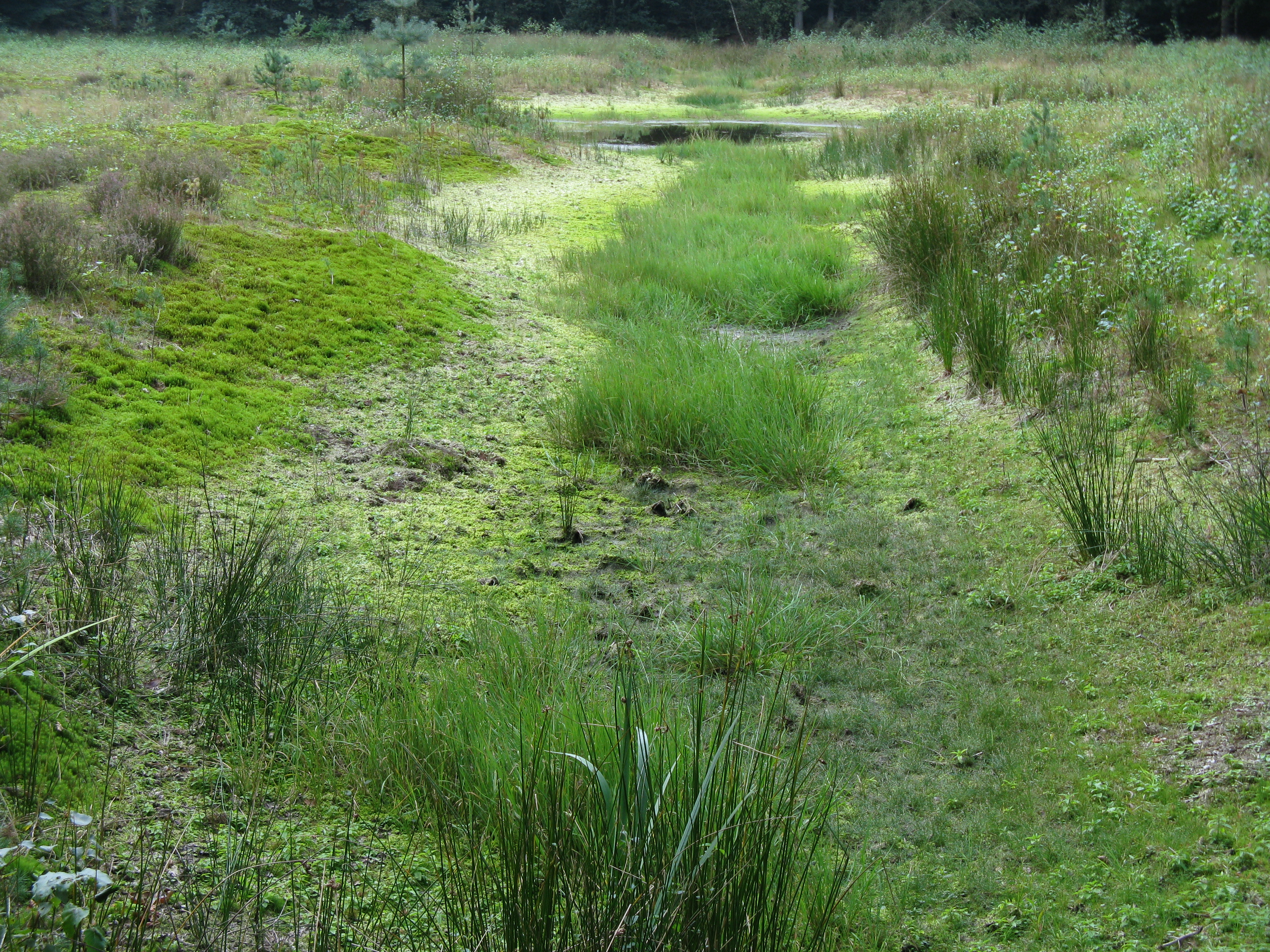 landscape